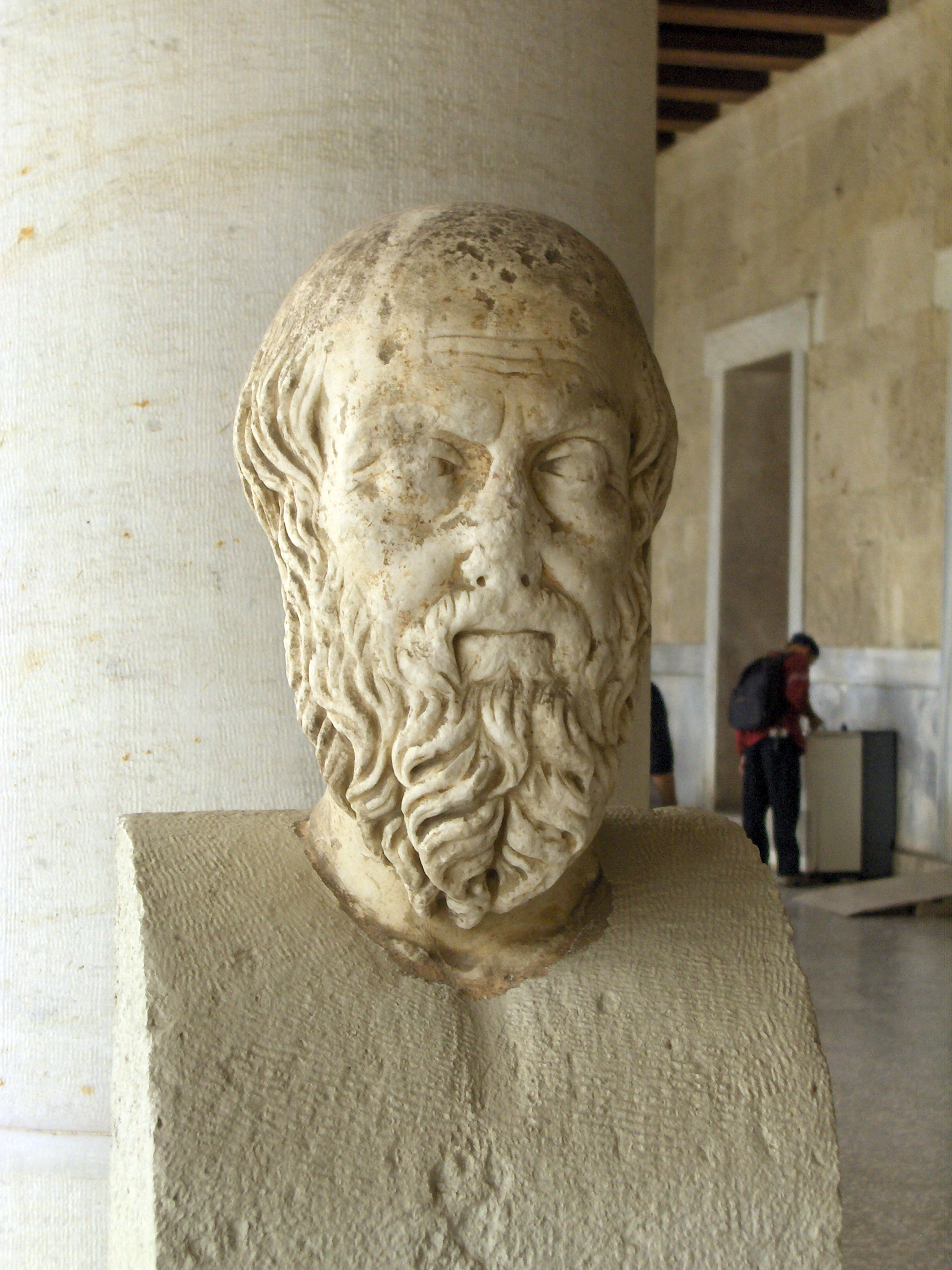 Bust of Herodotus. 2nd century AD. Roman copy after a Greek original. On display along the portico of the Stoa of Attalus, which houses the Ancient Agora Museum in Athens.